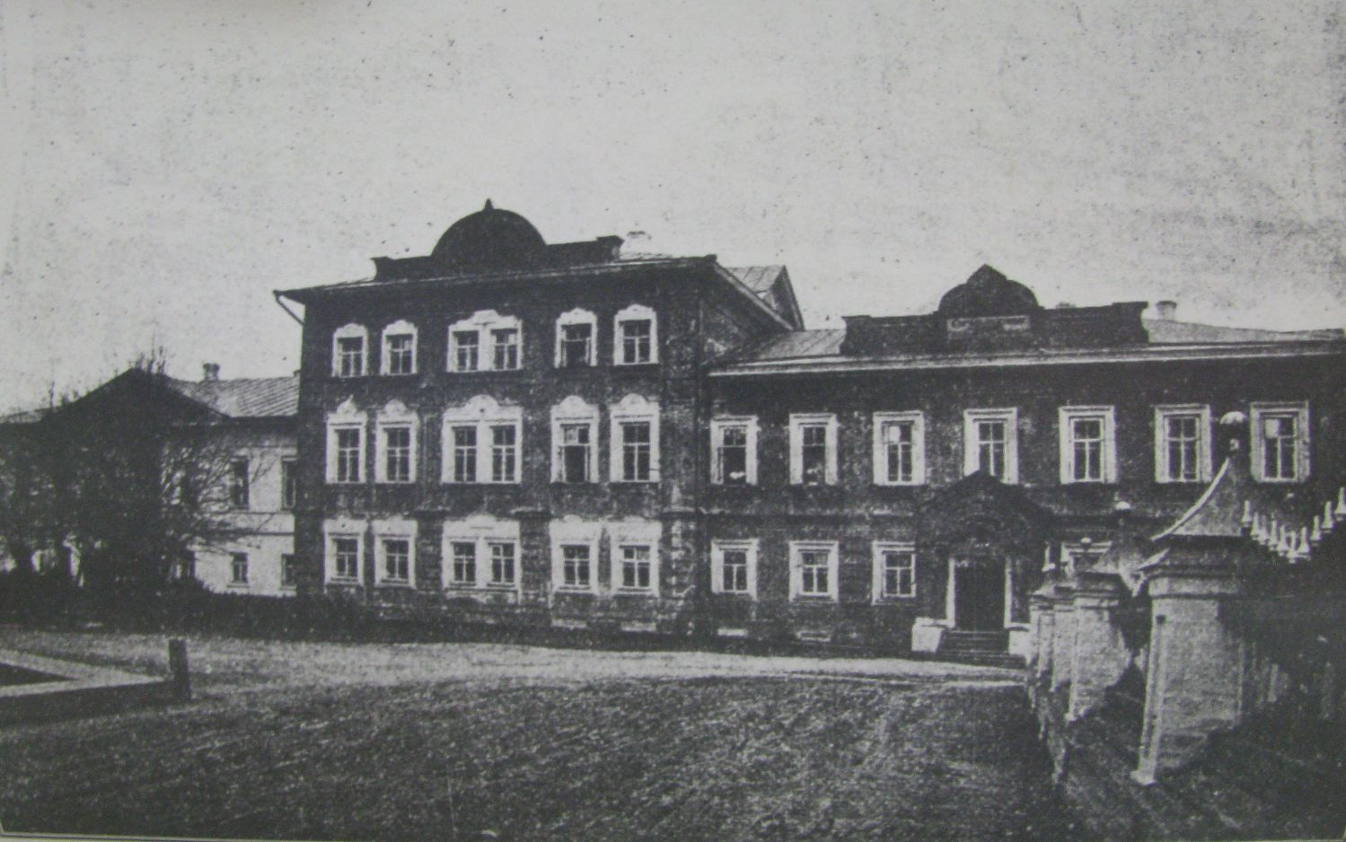 Shelter and college house in Gorny Monastery in Vologda